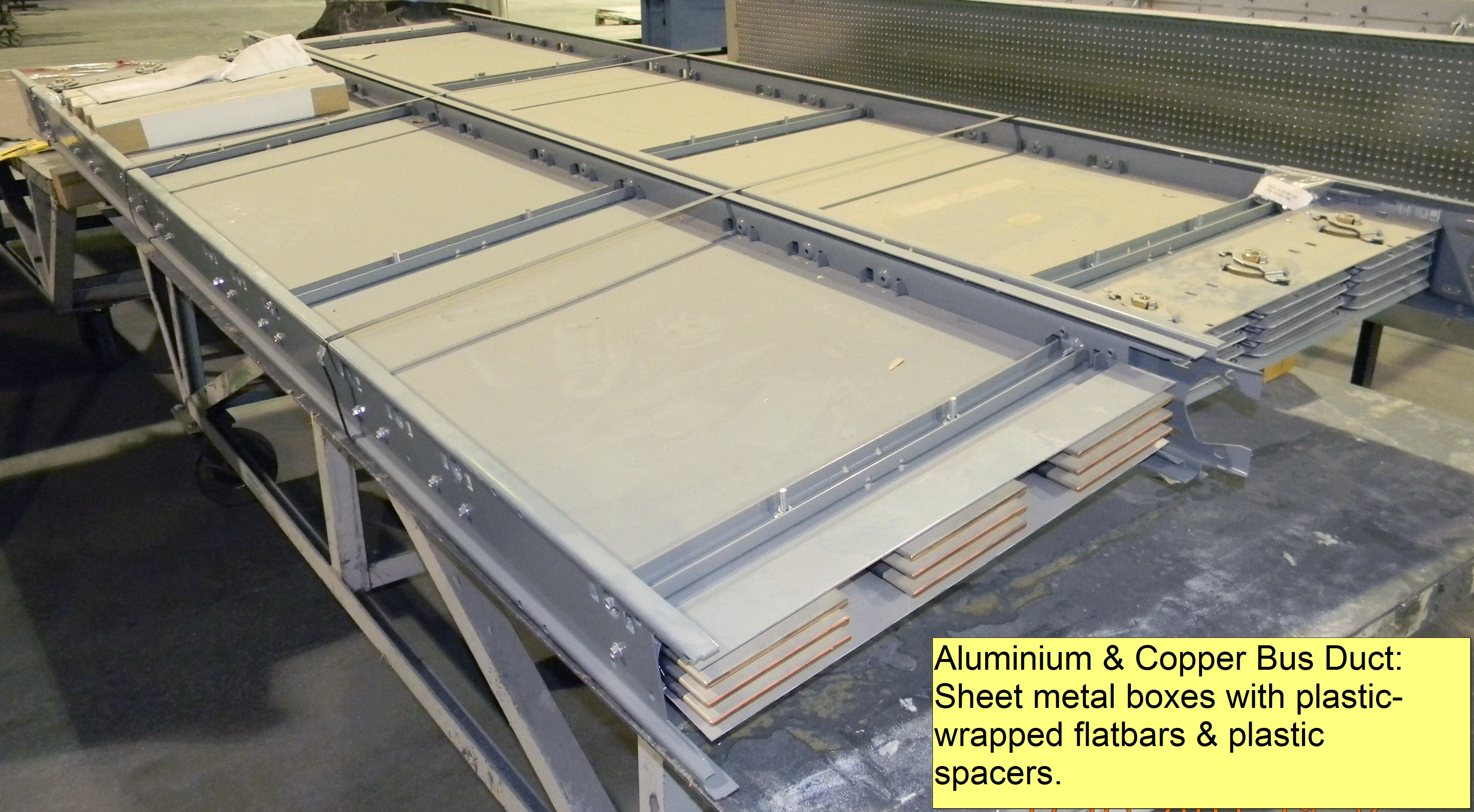 Bus Ducts: 4000A aluminium and 5000A copper, used as penetrants inside of firestop test sample leading to UL Through-Penetration Firestop System C-BJ-8028